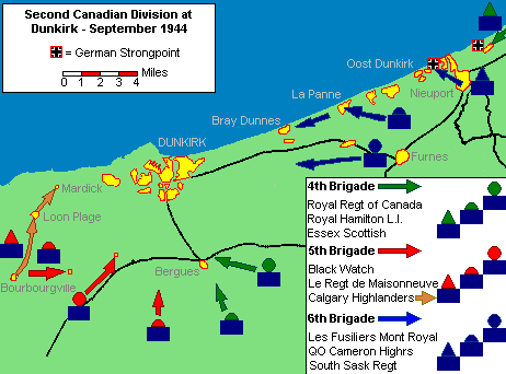 I am the author of this file, it is located currently at I am the webmaster.